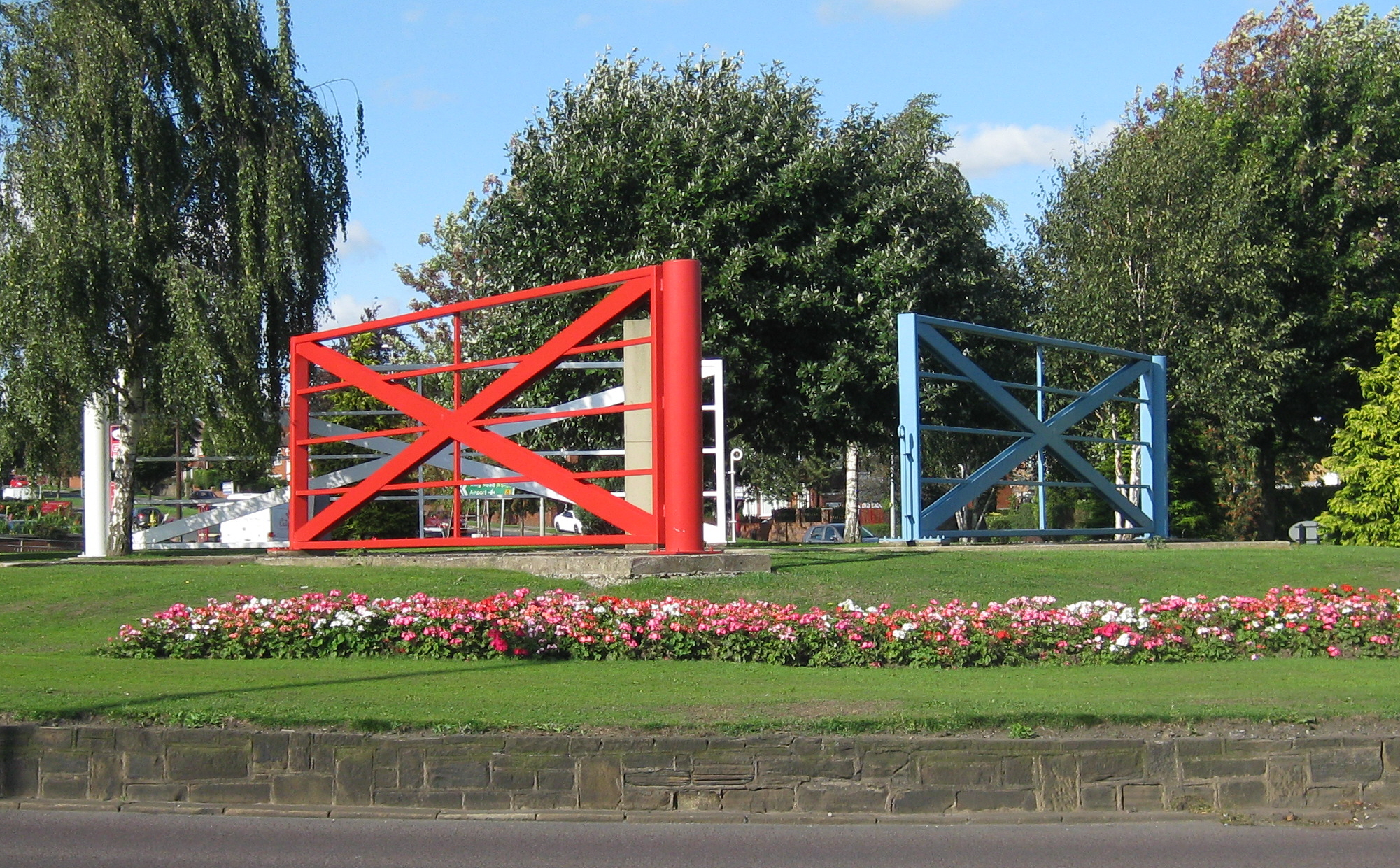 Sculpture in the form of 3 metal gates painted red, white and blue, designed by architect John Thorp and erected 2009 on the roundabout a the junction of Cross Gates Road and the A6120 Ring Road in Cross Gates, Leeds.